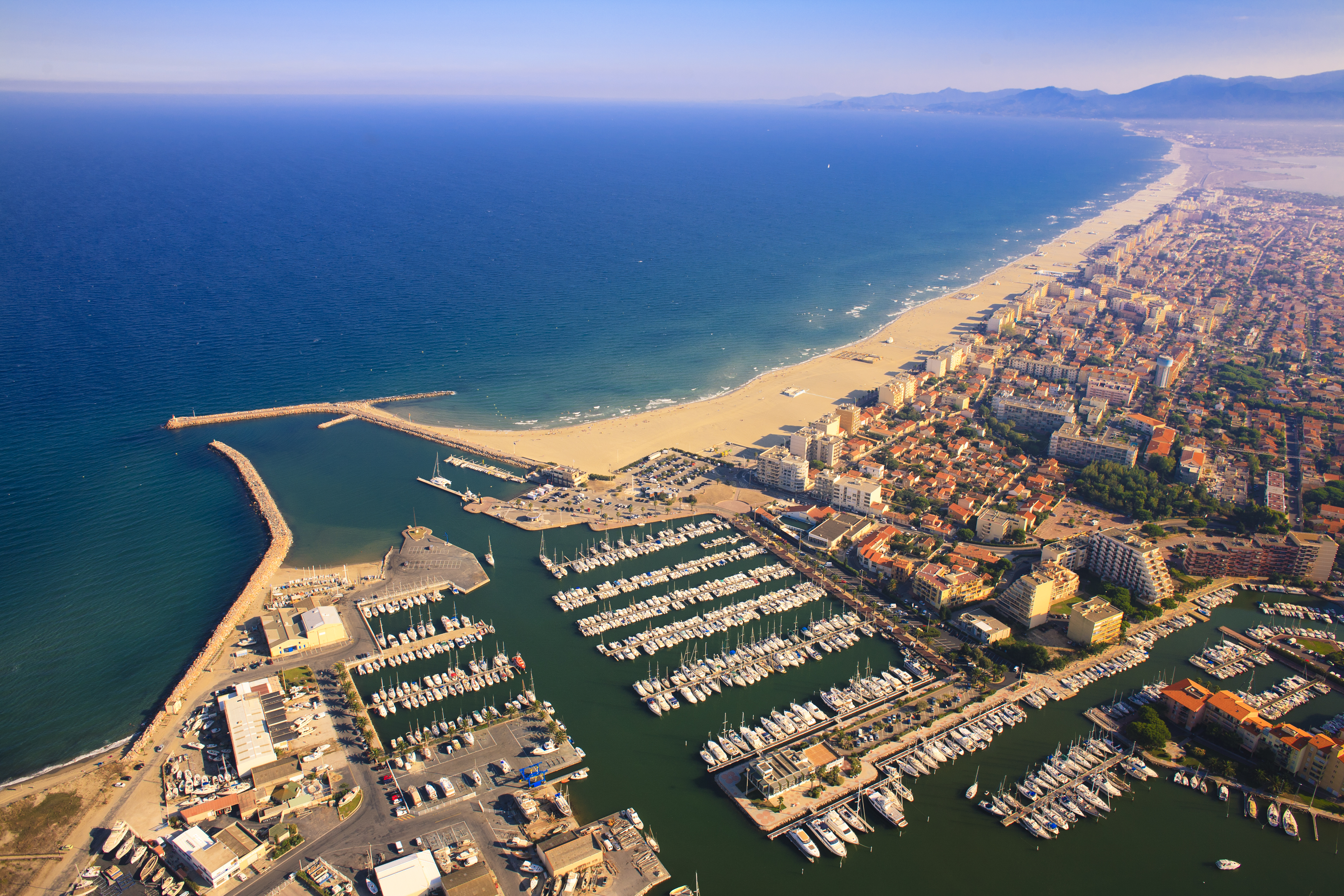 Aerial photograph of Canet-Plage